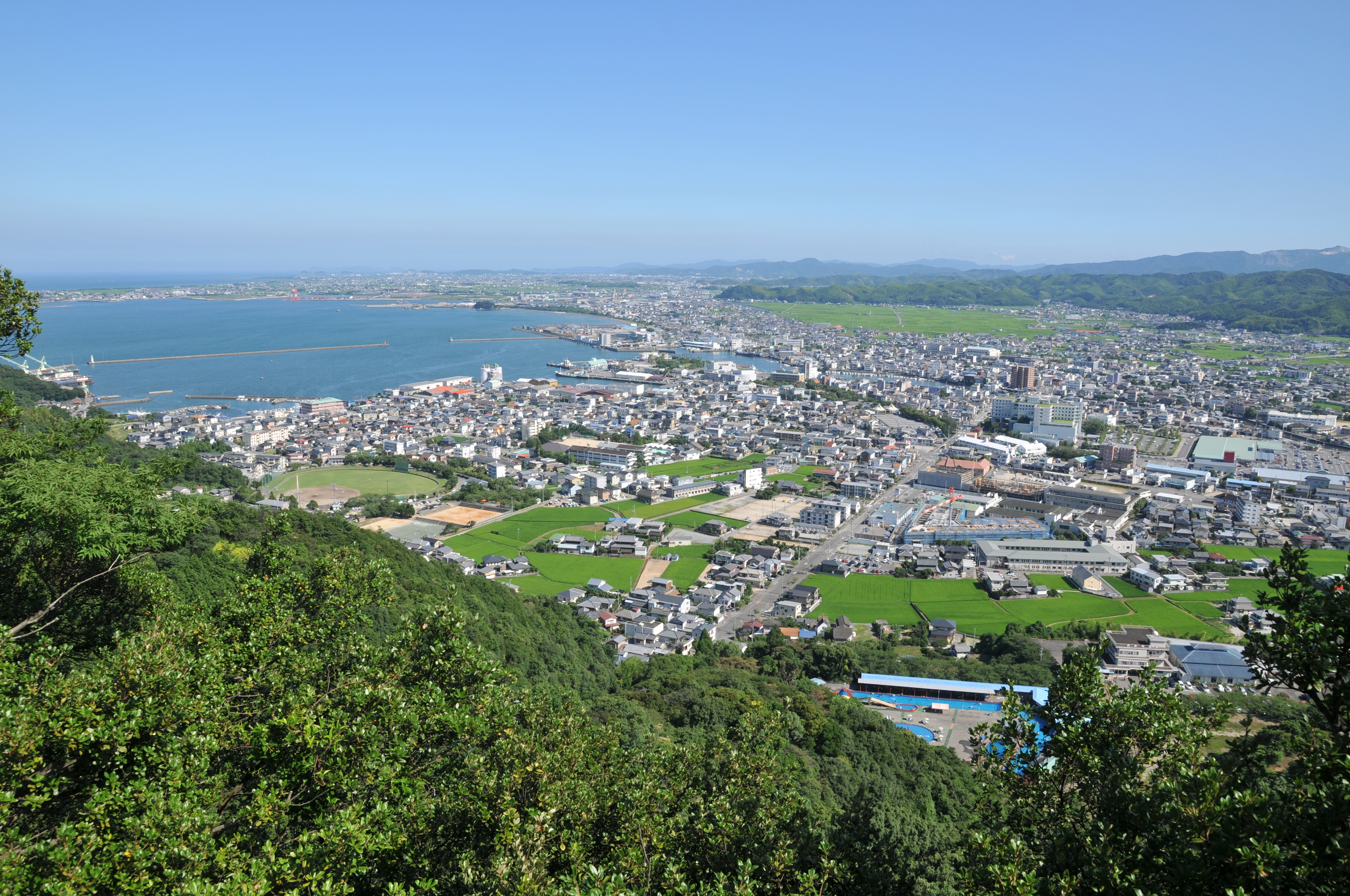 Komatsushima city and Anan city view from Hinomine jinja